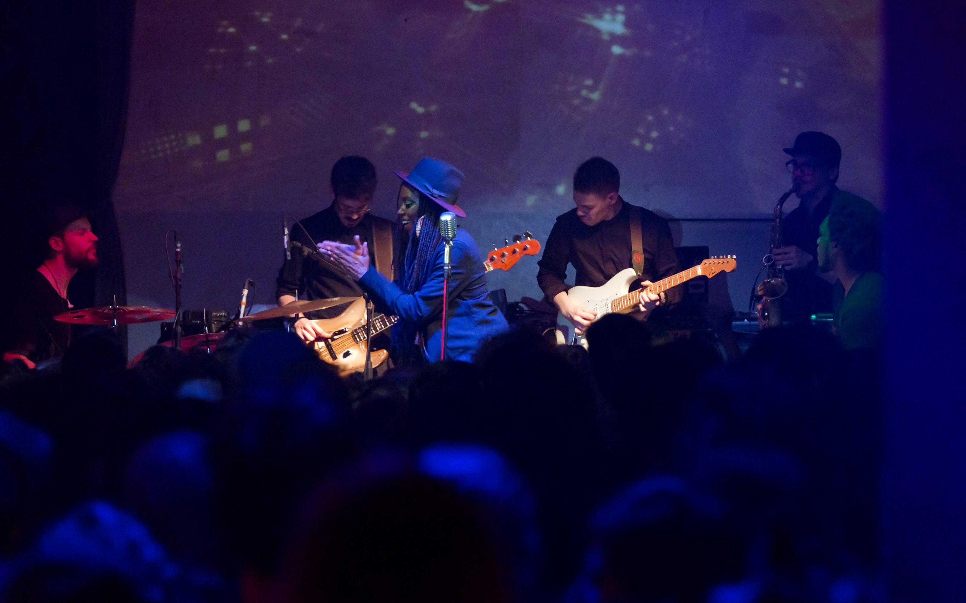 Akua Naru & The Digflo Band: "The Miner's Canary Tour", concert at Cafe Leopold at MuseumsQuartier in Vienna, Austria.